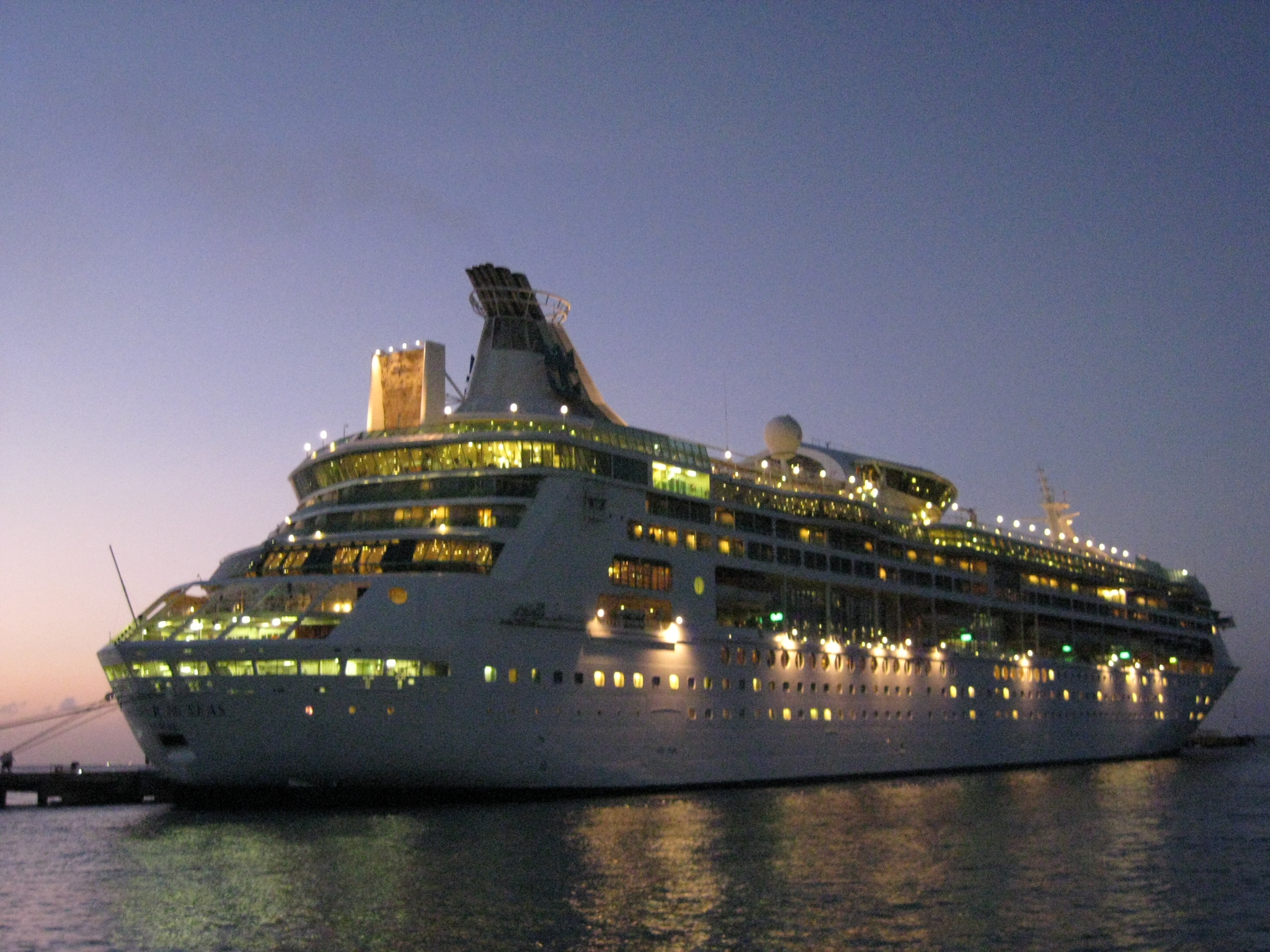 Royal Caribbean's MS Grandeur of the Seas ported at Cozumel Mexico at dusk IMO Number: 9102978 MMSI Number: 311315000 Callsign: C6SE3 Length: 280 m Beam: 36 m